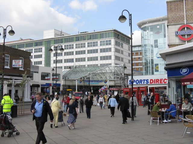 Uxbridge - central shopping area